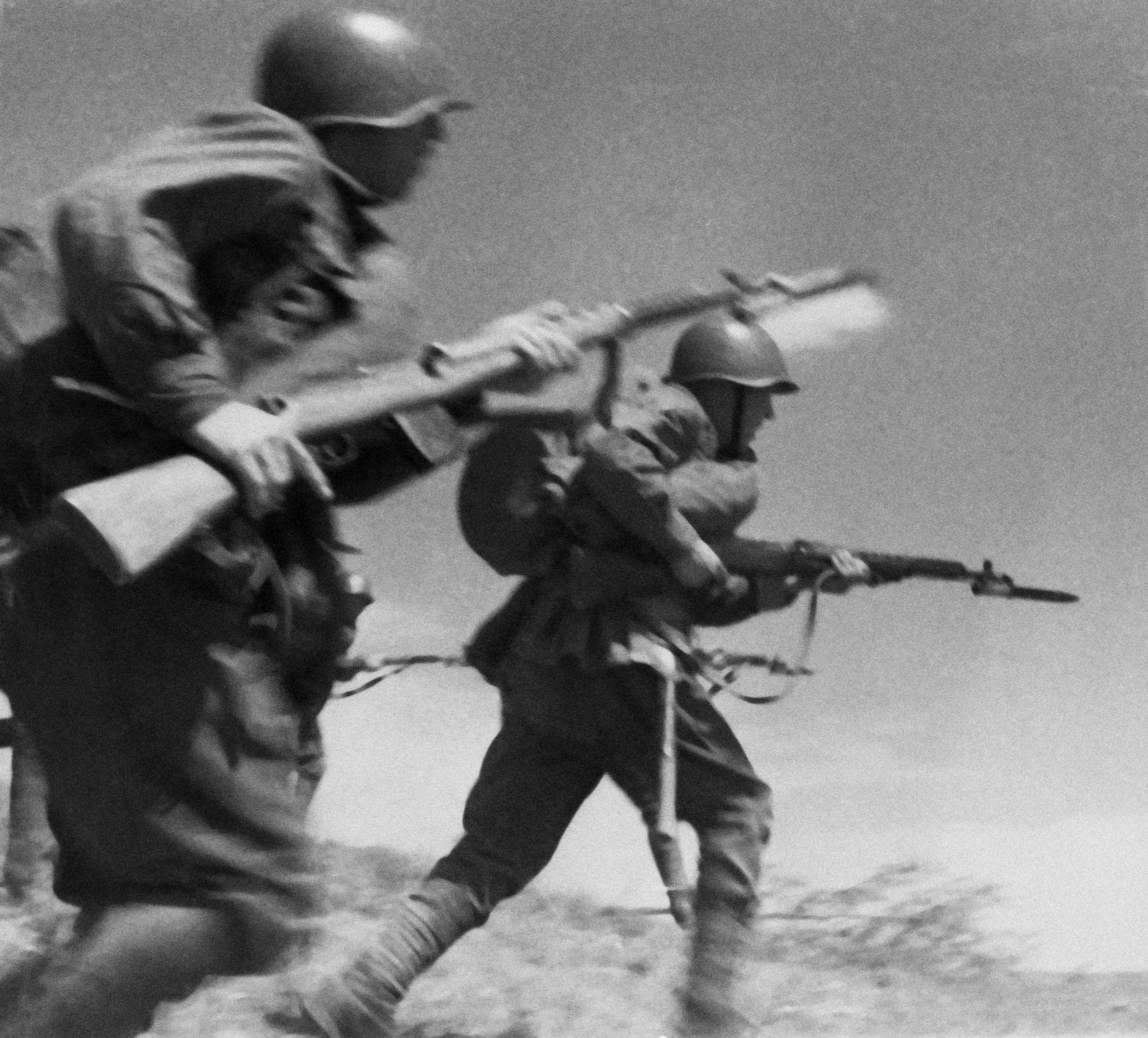 “Red Army men attacking”. The Great Patriotic War: Red Army men attacking. 1941 photo.